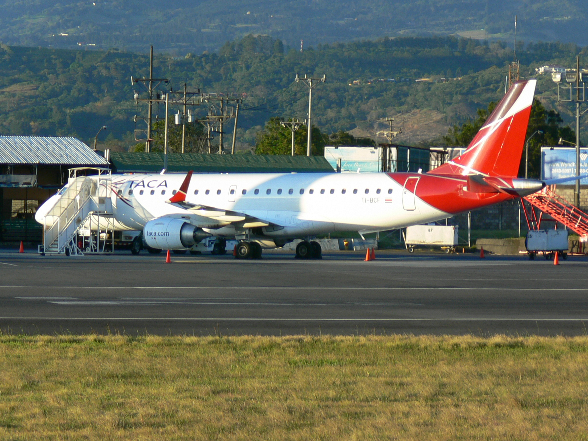 Embraer 190 from TACA at MROC (Juan Santamaria International Airport, Costa Rica)